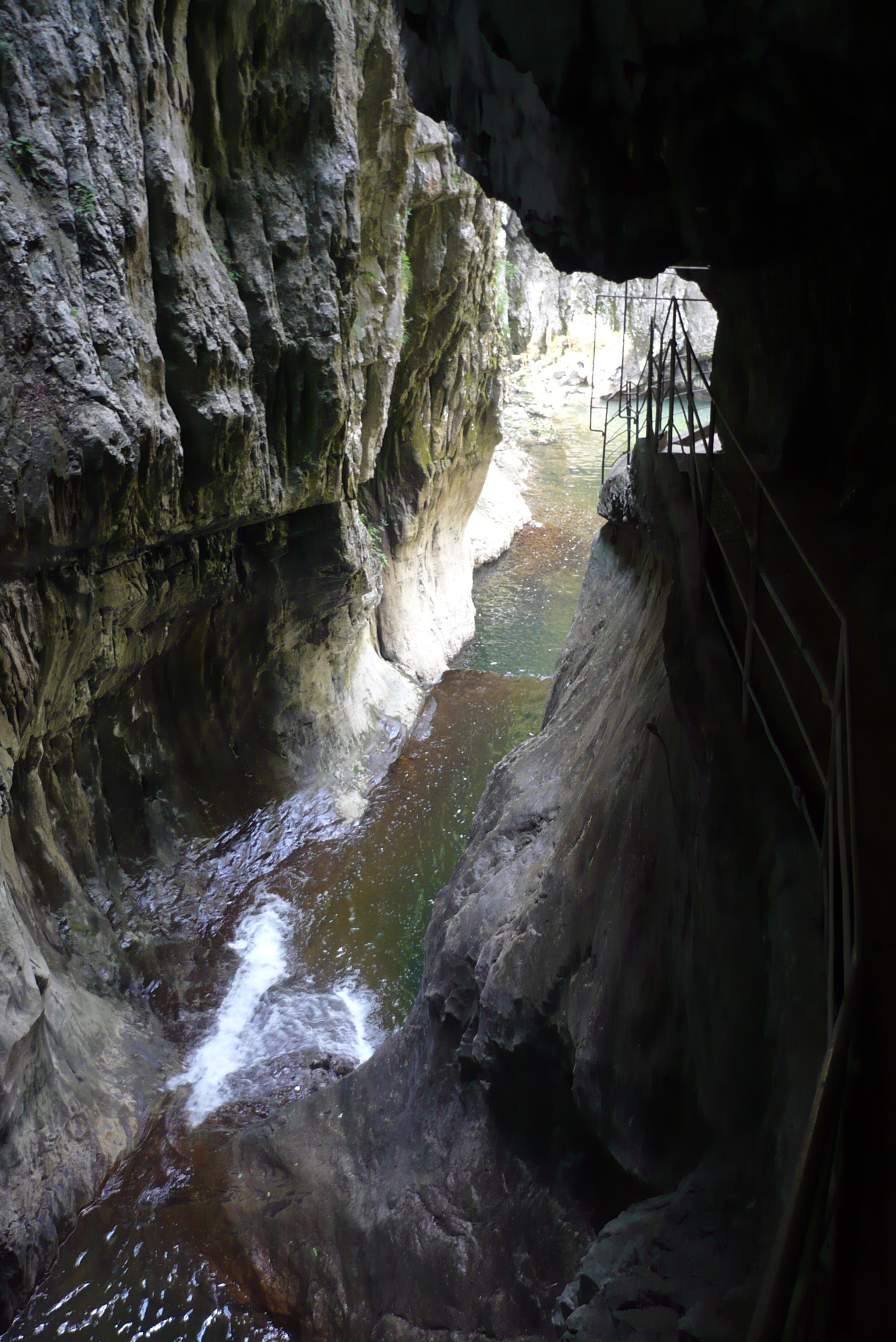 Škocjanske jame - caves in Slovenia.